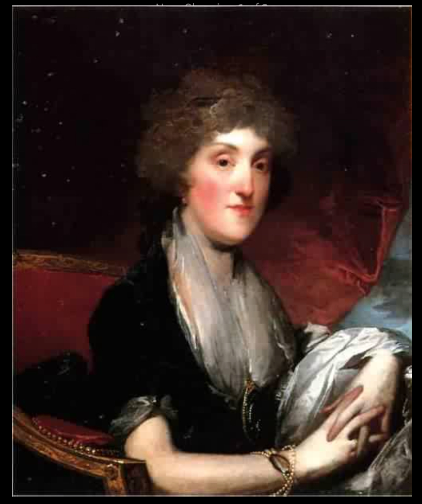 Arabella Maria Smith Dallas